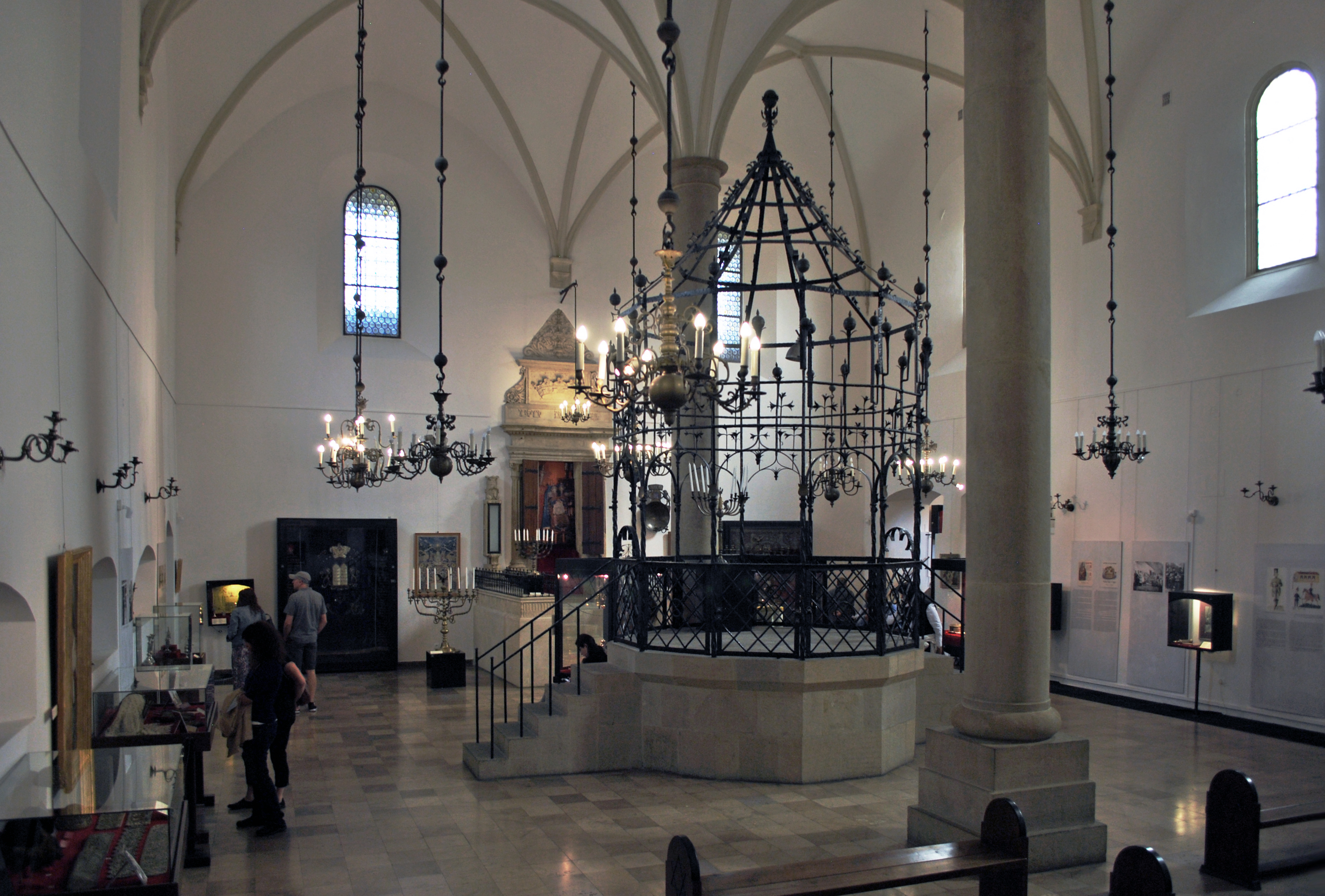 Old Synagogue, interior, 24 Szeroka street, Kazimierz, Krakow, Poland